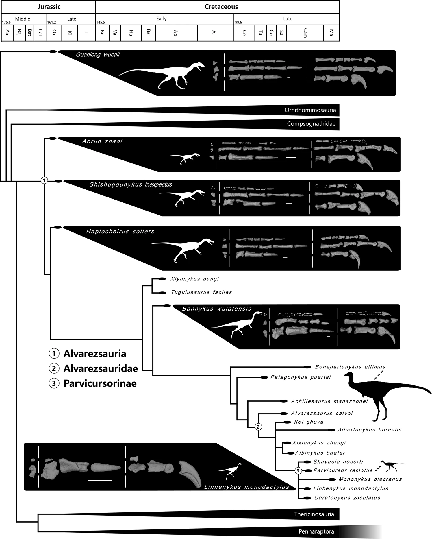 Time-calibrated alvarezsaurian phylogeny showing alvarezsaurian hand evolution (Scale bar, 10 mm); silhouettes show the size variation both in early-branching and late-branching alvarezsaurians.